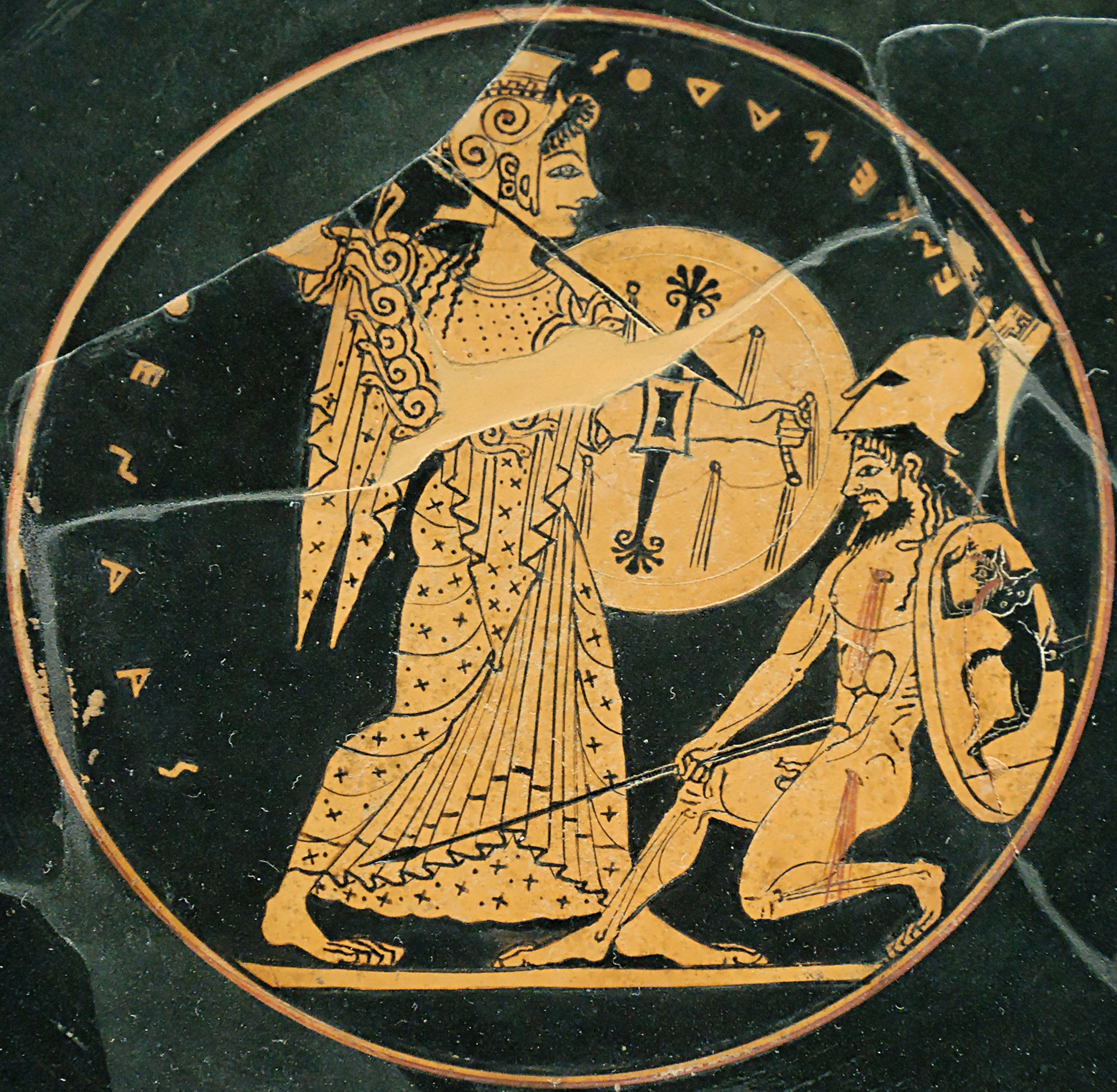 Athena and Enceladus fighting. Interior from an Attic red figure stemmed dish.